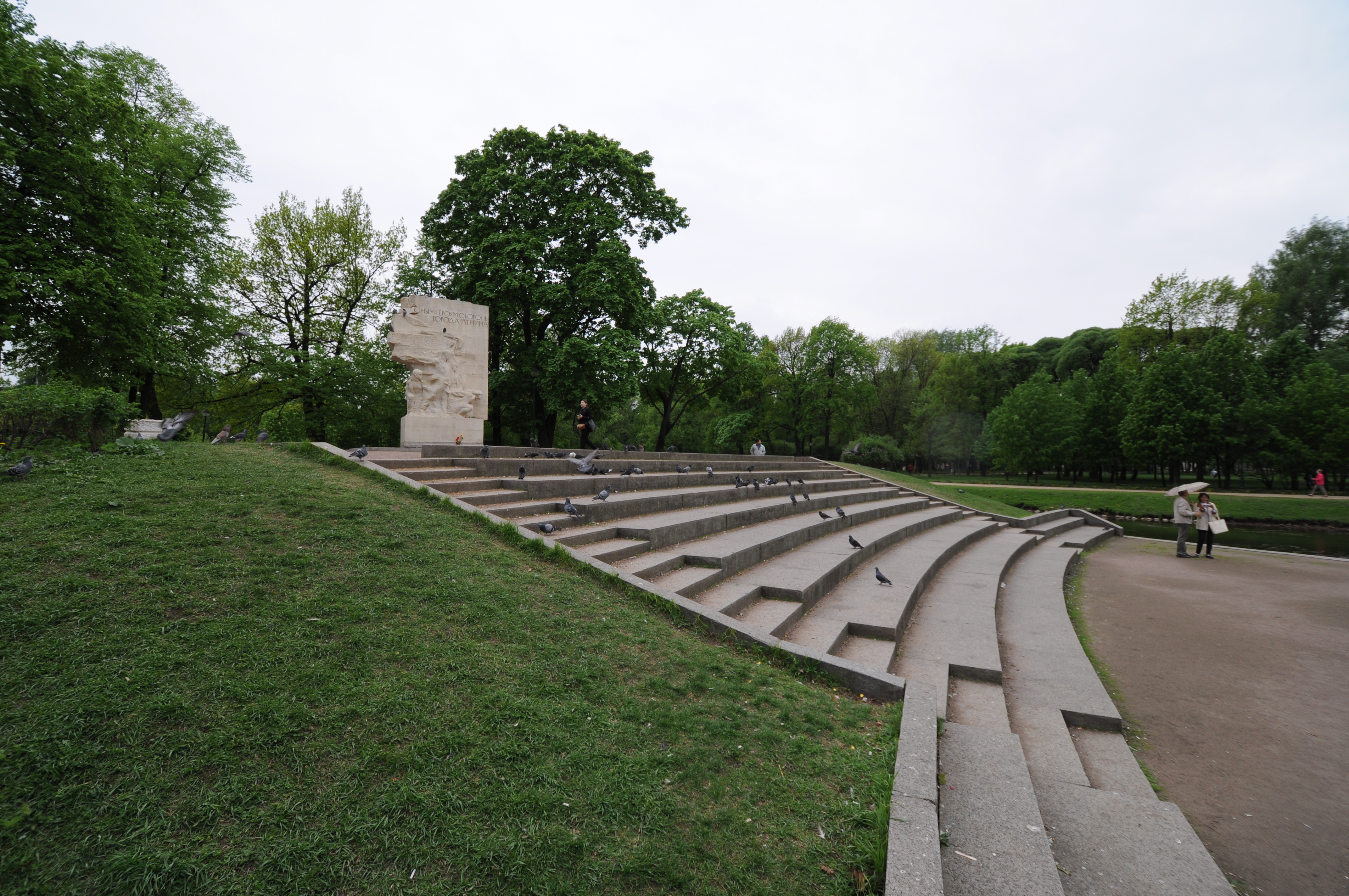 Monument to Young Pioneer Heroes in Tauride Garden and granite steps down to water